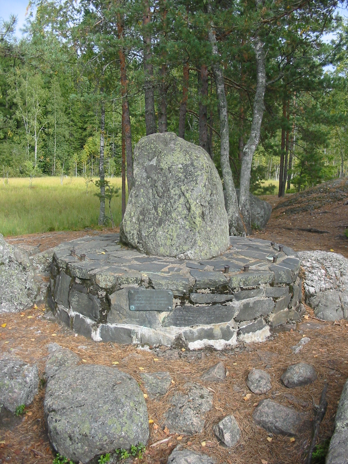 Kuhankuono Boundary stone in Finland Proper